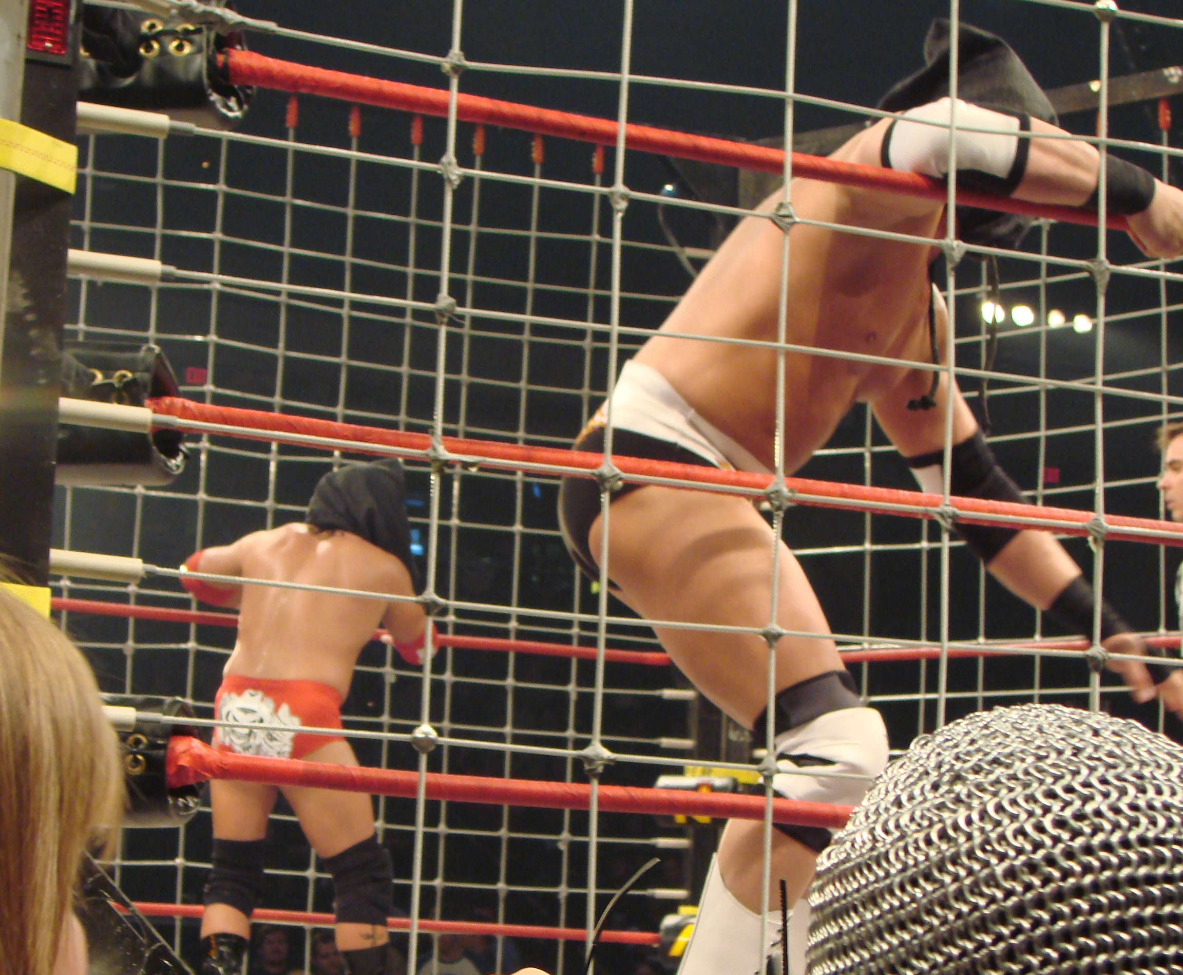 Chris Harris (wrestler) and James Storm in at Six Sides of Steel Blindfold match. Lockdown (2007), Family Arena, St. Charles, MO, April 15en:2007.